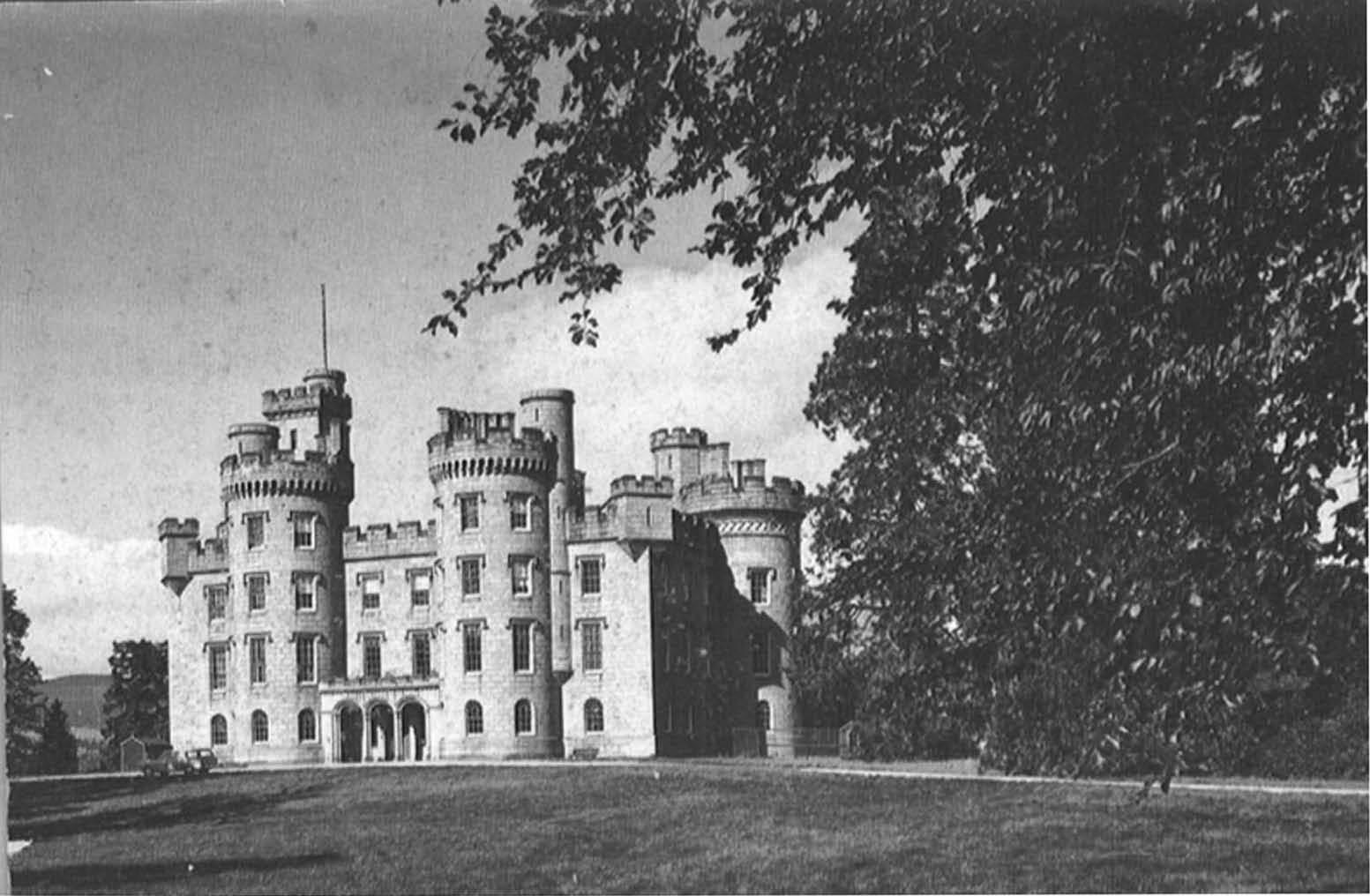 Cluny Castle in 1966 with original flagpole